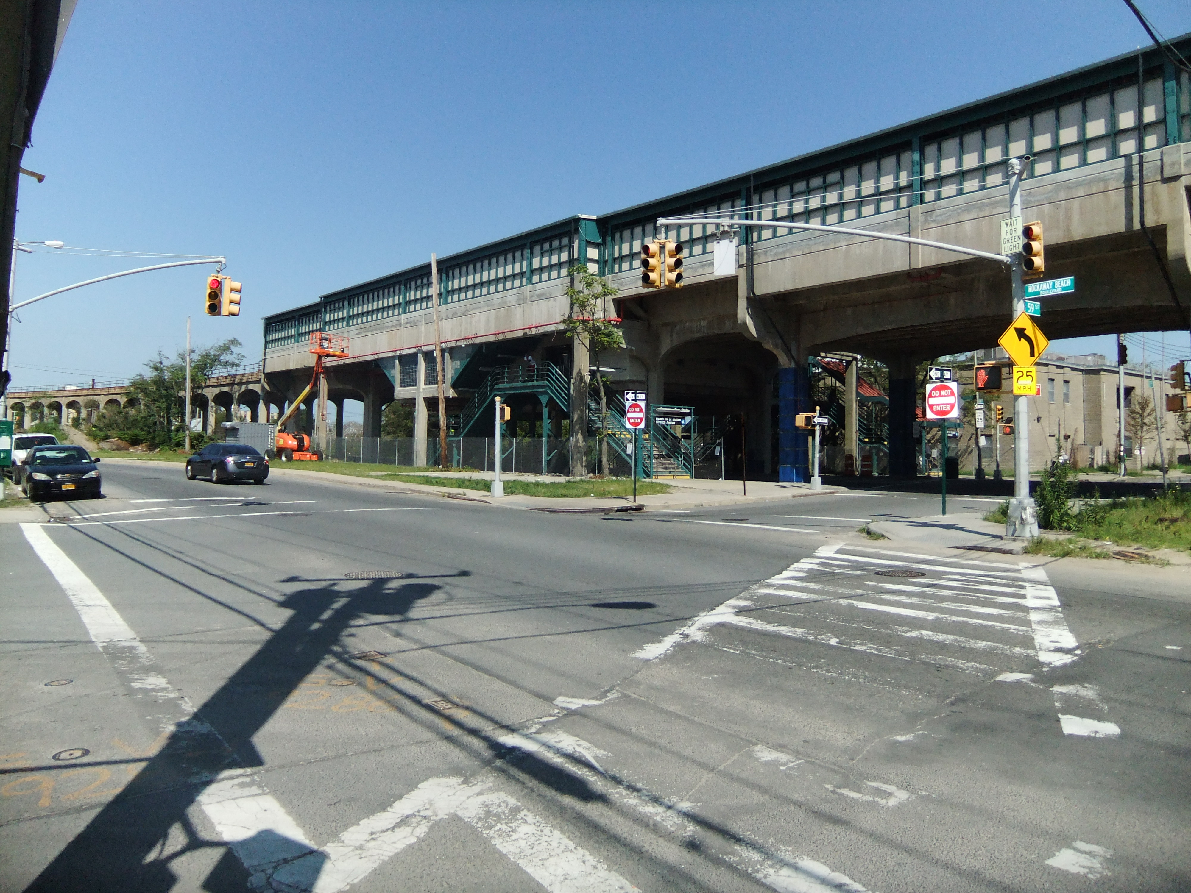 Stair at Beach 59th Street and Rockaway Freeway to the Beach 60th Street - Straiton Avenue station.